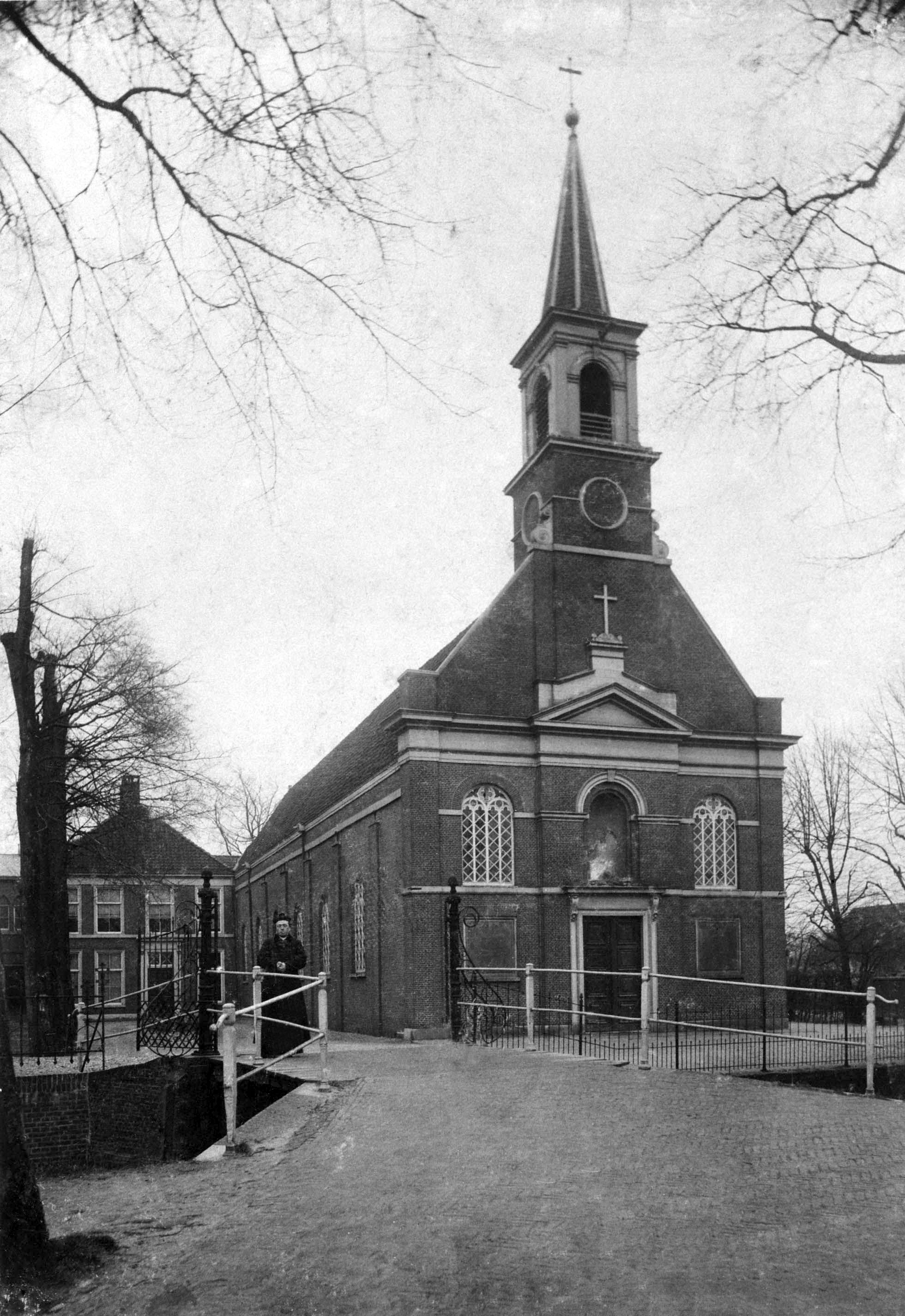 The Roman Catholic Saint Boniface church, Van Vredenburch road in Rijswijk. Pastor B. van Buuren (1885-1889) is posing on the bridge